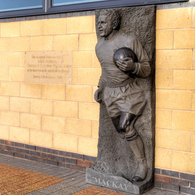 Dave Mackay Memorial, Derby County FC. Dave Mackay, who also played for Hearts and Tottenham, captained Derby County from 1968 until 1971 with the club winning promotion to the (old) first division during his first season. He later returned in 1973 to manage the club, leading it to the Division One title in 1975. This statue, outside the players' entrance at the iPro Stadium, was unveiled in September 2015. Creative Commons Licence [Some Rights Reserved] © Copyright David Dixon and licensed for reuse under this Creative Commons Licence.